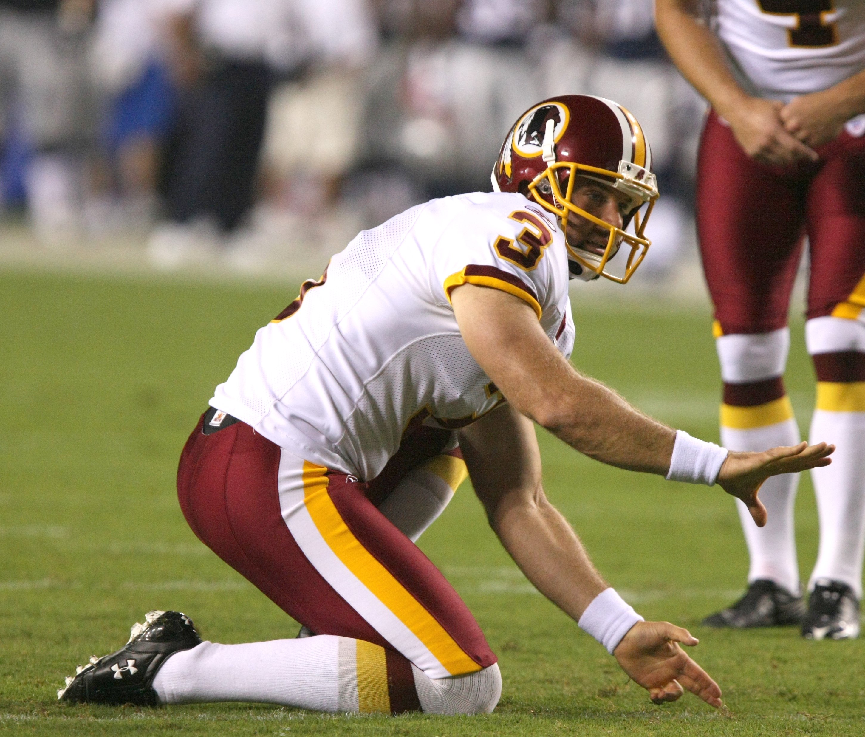 New England Patriots at Washington Redskins 08/28/09